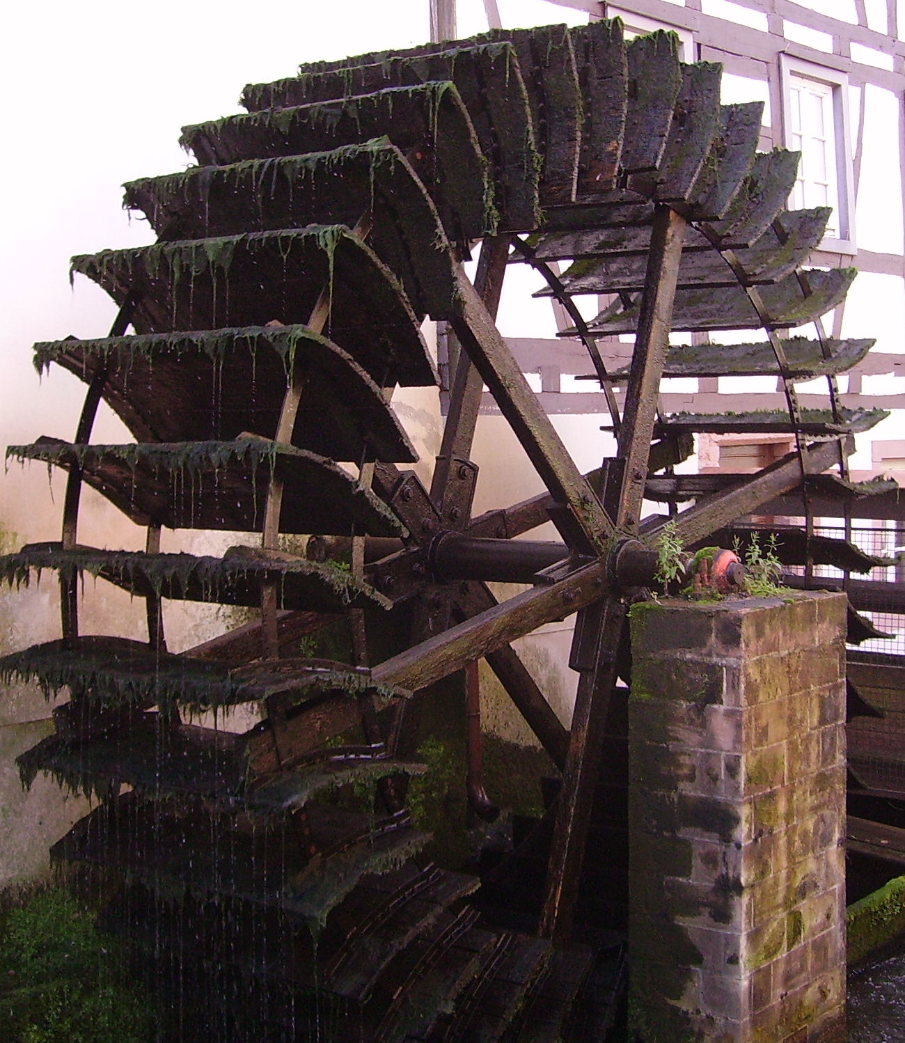 view of Annweiler, Germany